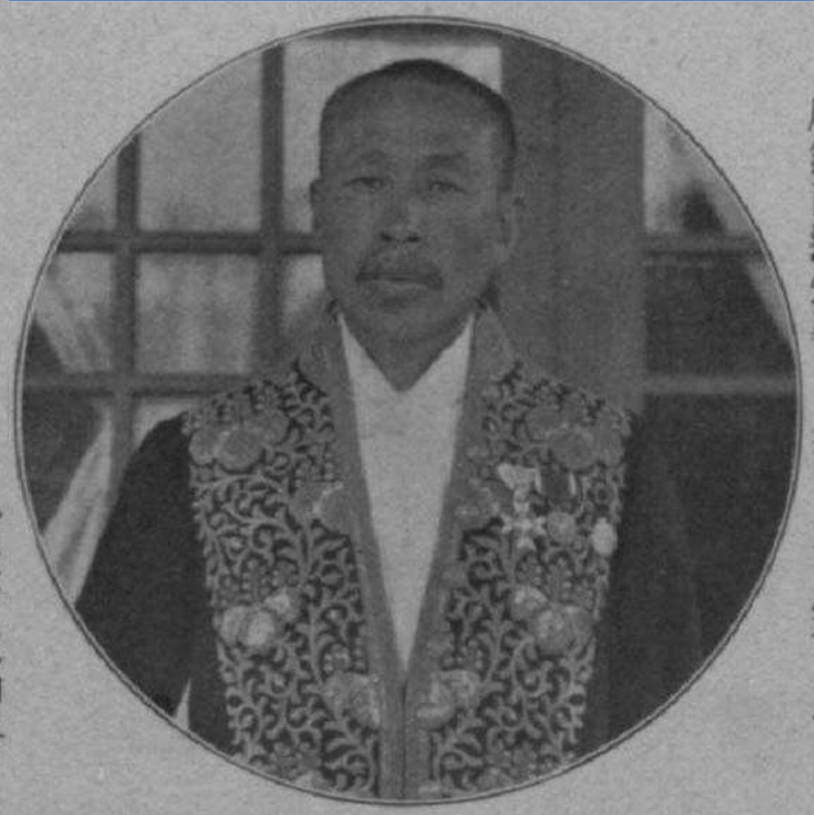 Lee Kyu-wan, Korean politicians